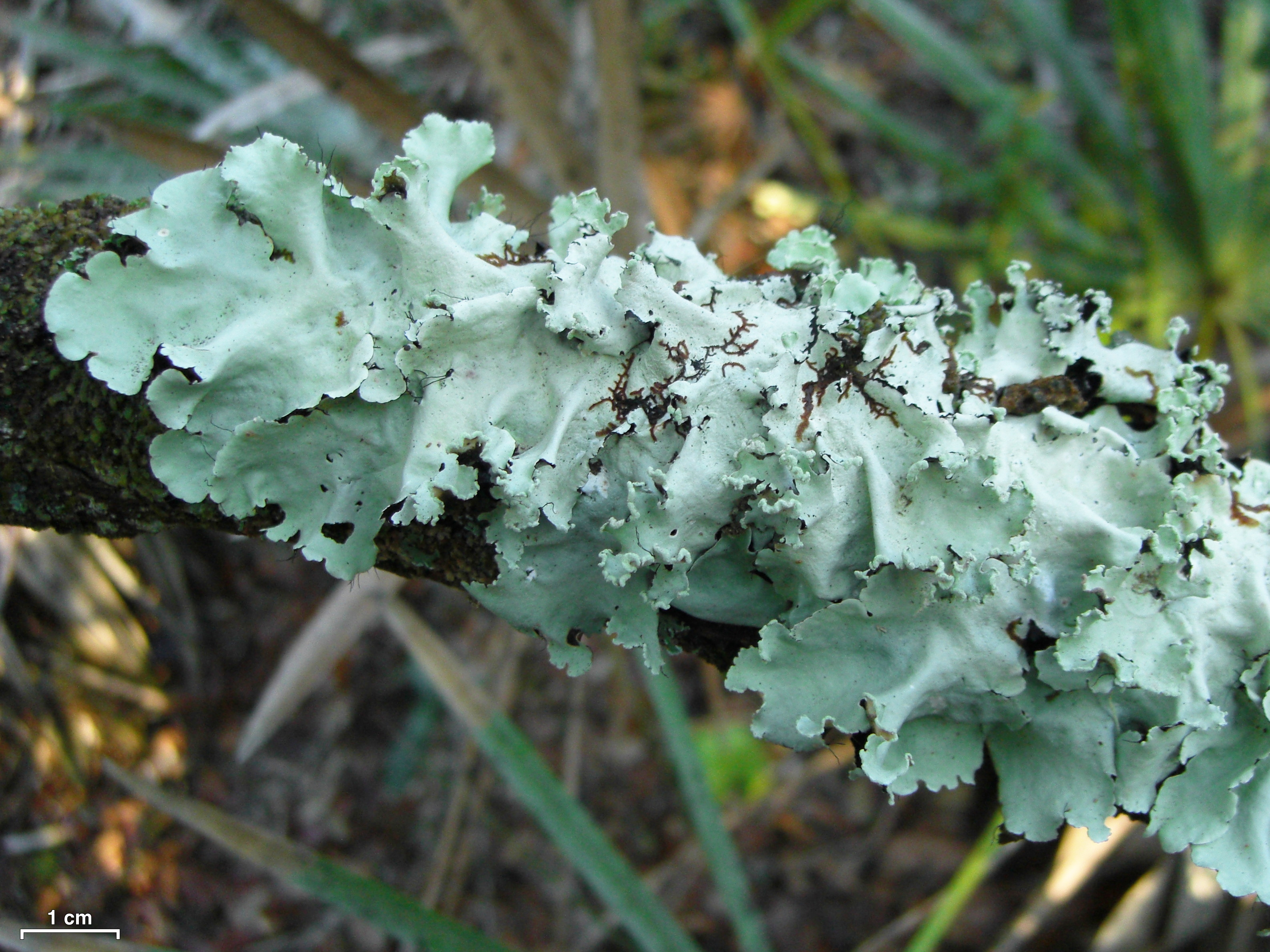 Ocala National Forest, Florida, 20131216